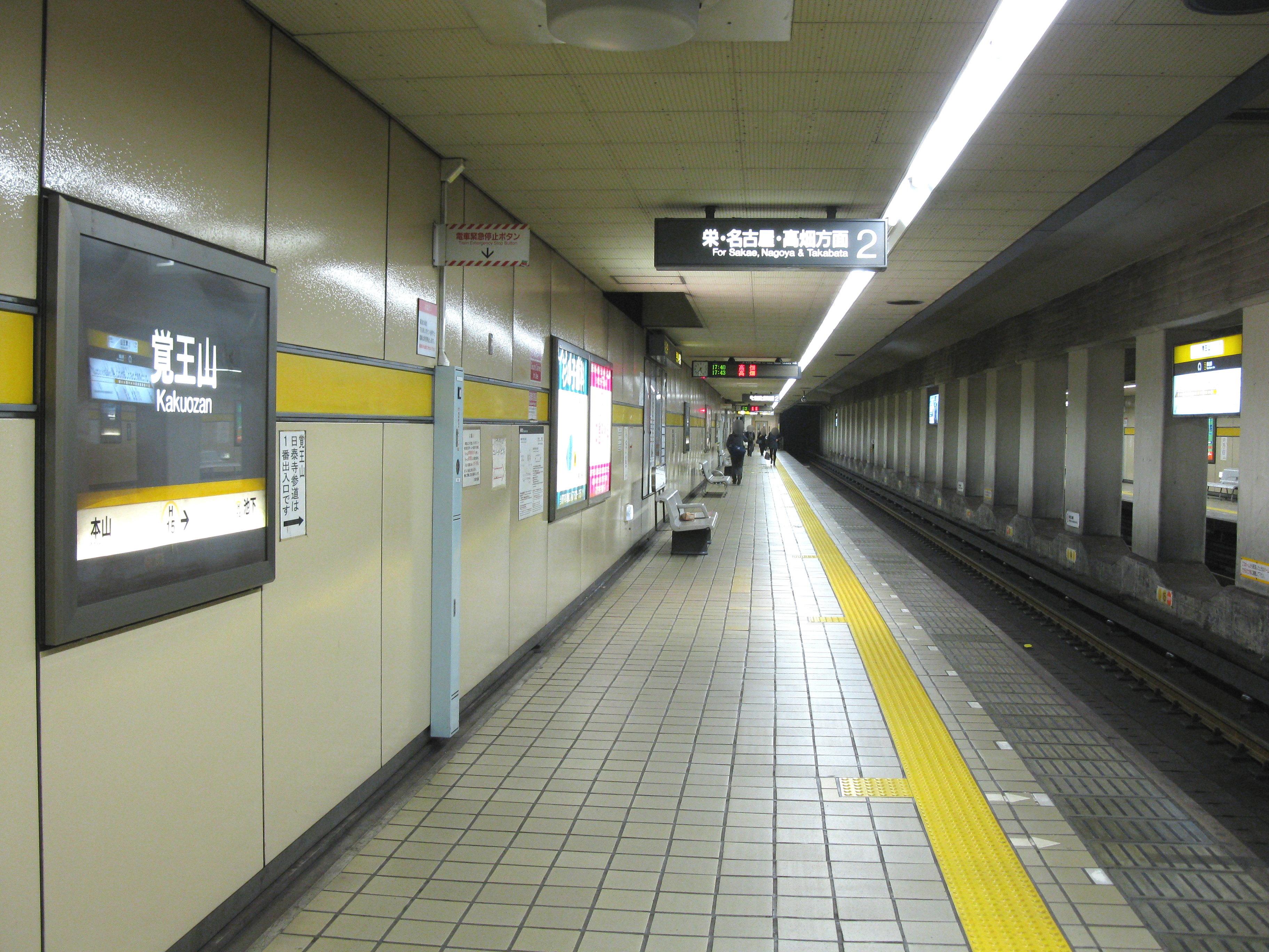 Kakuōzan Station platform (Nagoya Municipal Subway Higashiyama Line)